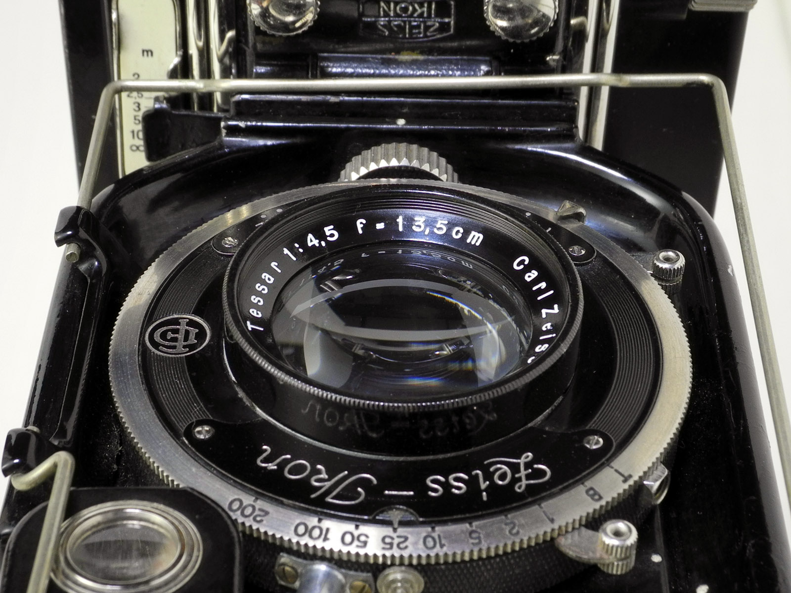 Tessar 13.5cm f/4.5 (Zeiss Ikon,3¼" × 4¼")